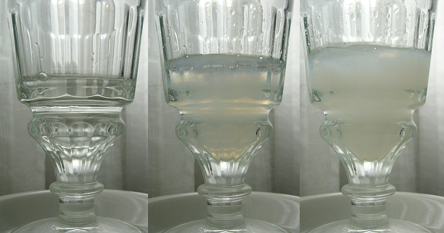 Louche effect in 3 frames while diluting a blanche absinthe